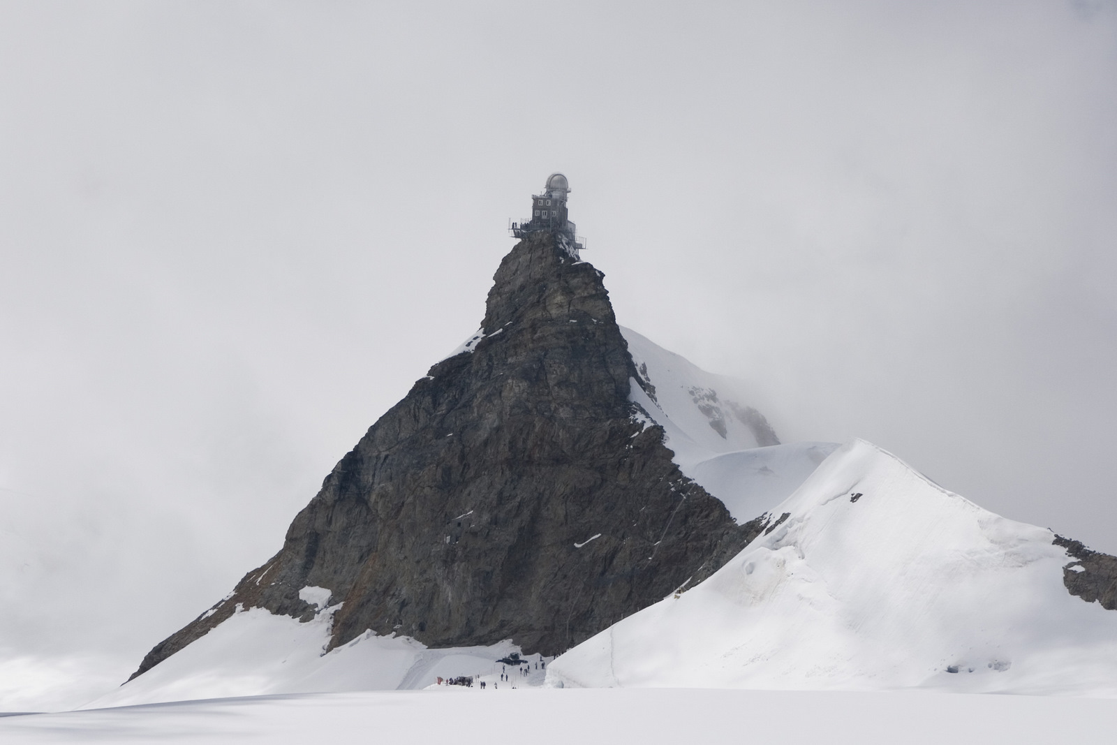 Sphinx Observatory is located on top of the mountain